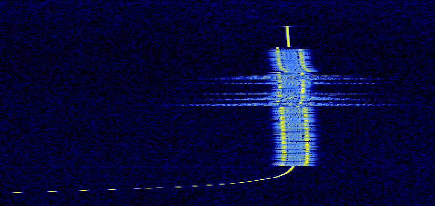 Waterfall capture of Fox-1Cliff safe mode beacon centered at 145.920 MHz, using GQRX and an V3 dongle.